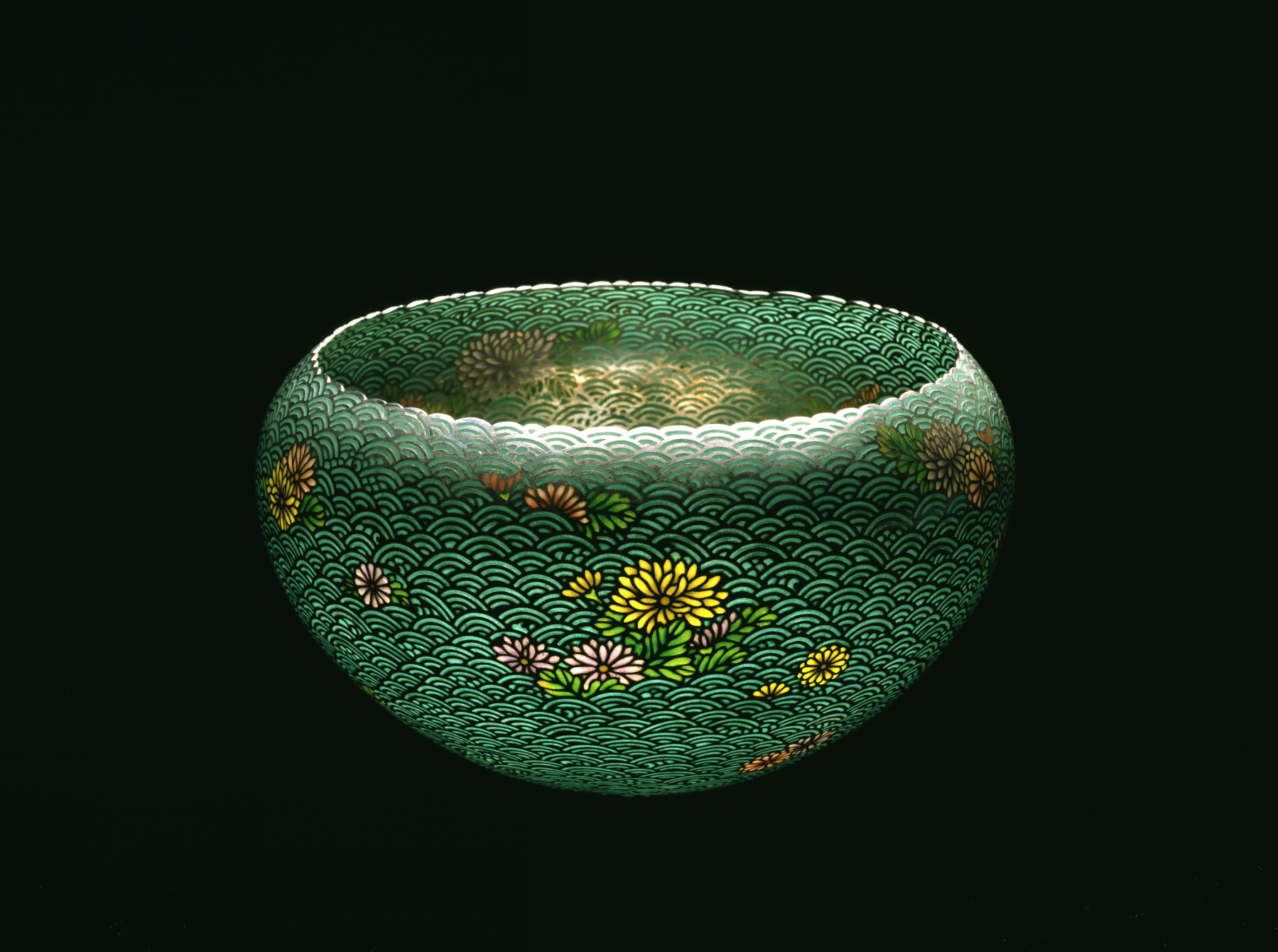 This bowl exhibits plique-a-jour enamelling on a silver base. The silver has been cut into a pattern of stylized waves with floating chrysanthmum blossoms.